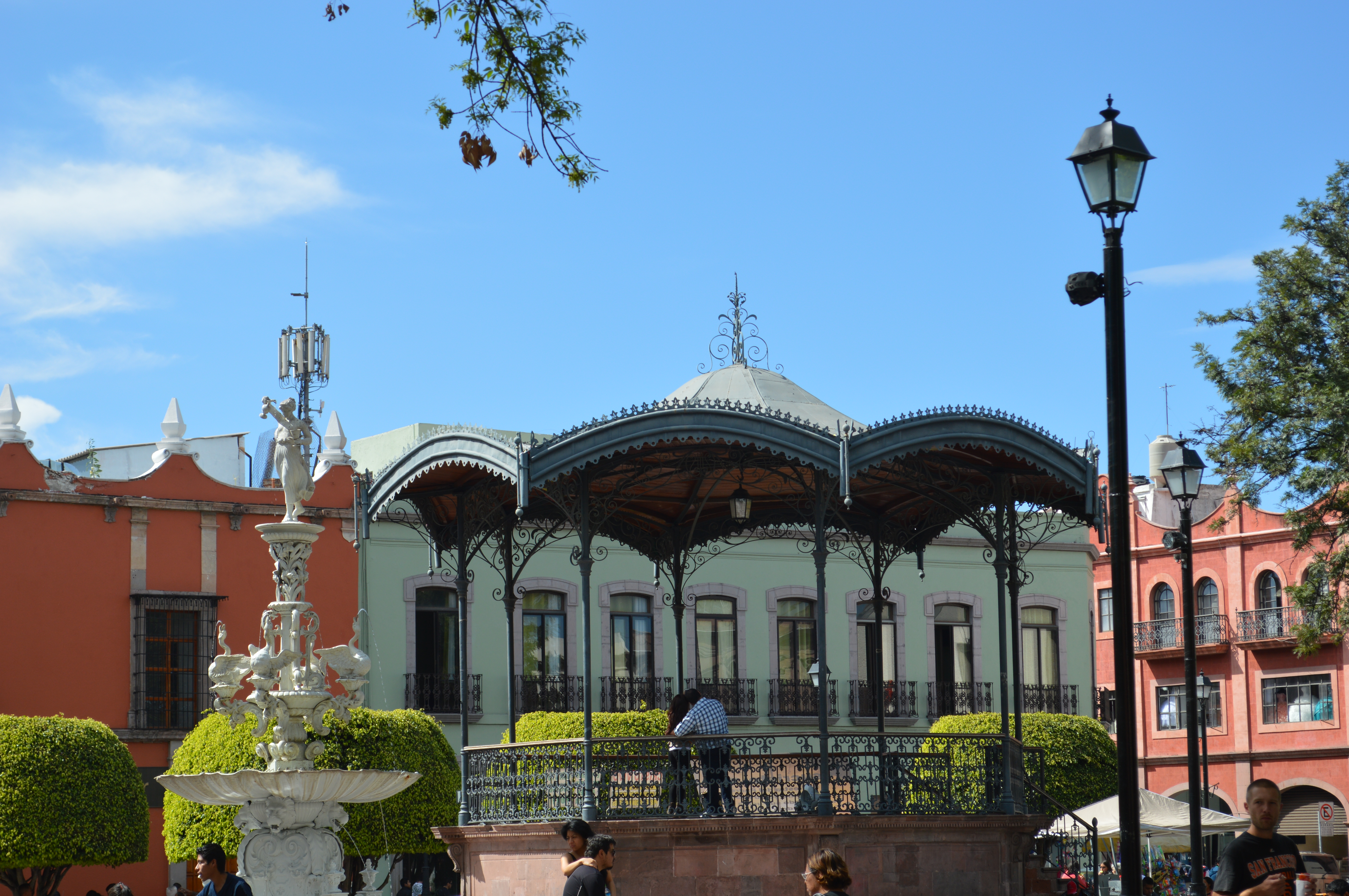 Kiosk in Jardin Zenea in Santiago de Querétaro, Mexico